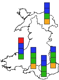 Results map for the regional lists in the 1999 Welsh Assembly Elections